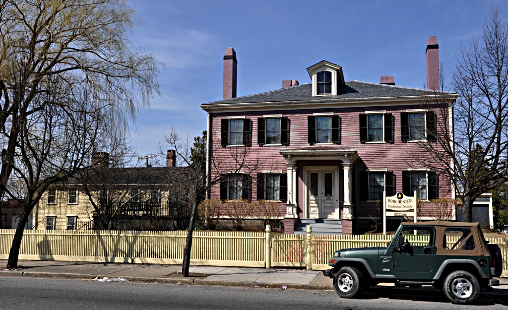 A photograph of the historic Clapp Houses in the Dorchester neighborhood of Boston, Massachusetts.